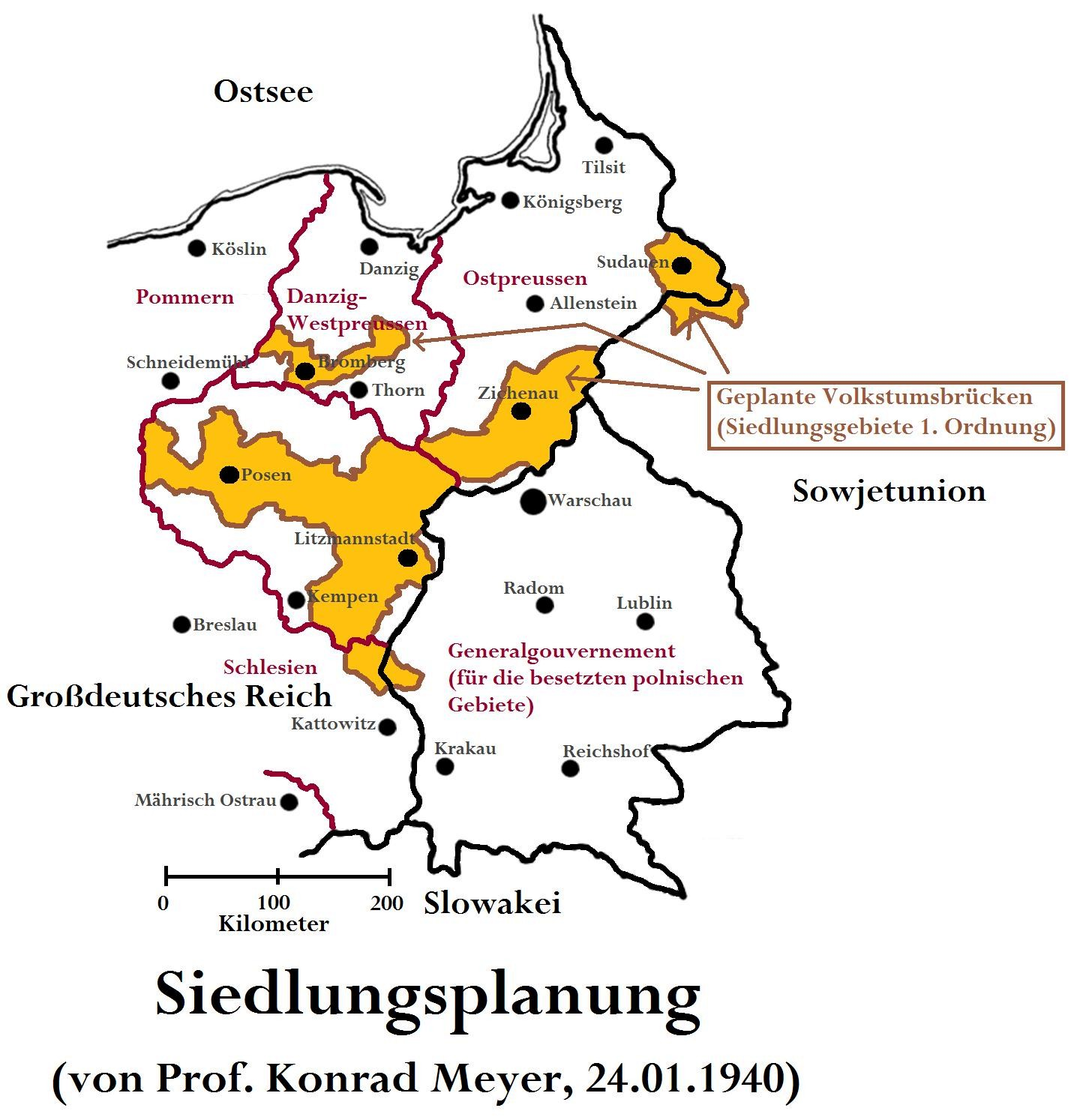 German Settelement plan Warthegau